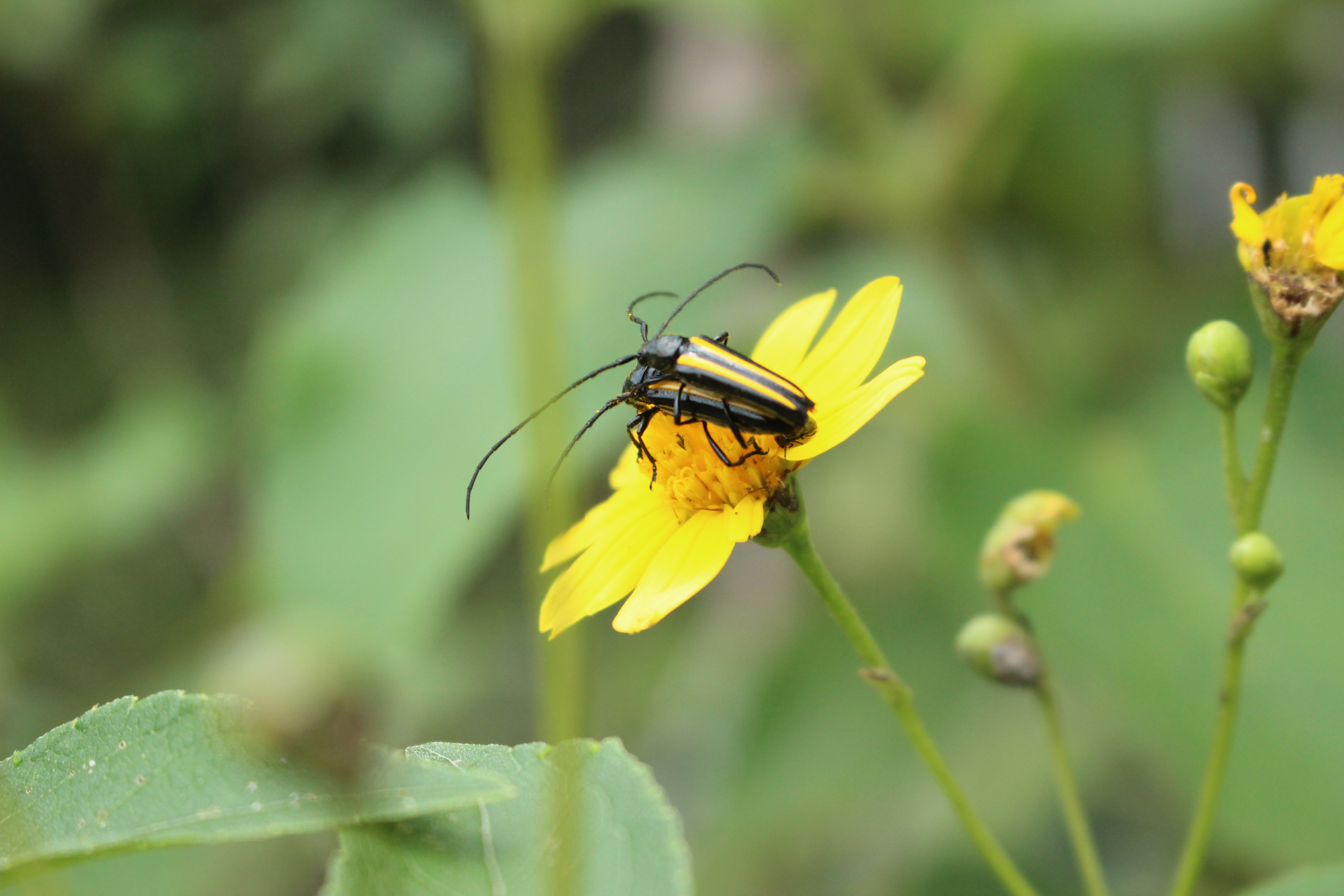 Mating Beetle on a plant at Sima de las Cotorras, Ocozocoautla Chiapas